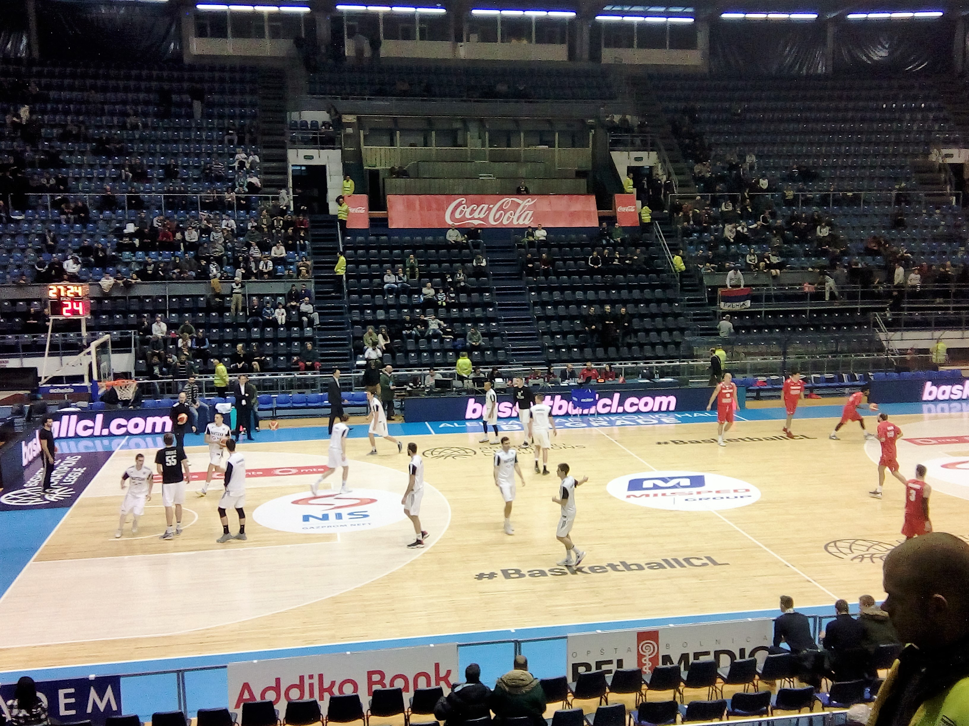 Basketball Champions League: KK Partizan - Szolnoki Olaj KK 77:67